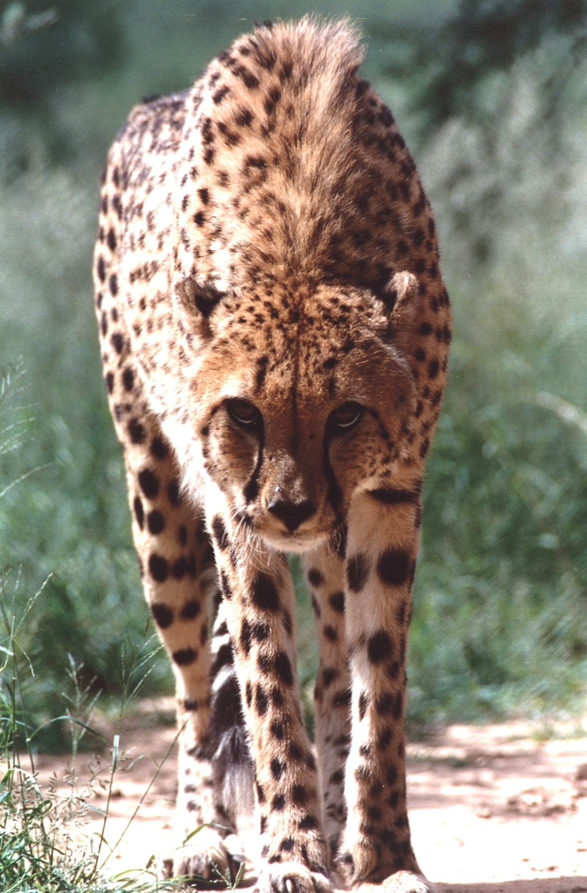 One of the non-releasable cheetahs residing at CCF. Author: P. Tricorache.